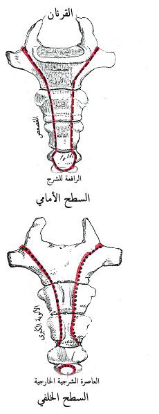 Coccyx.